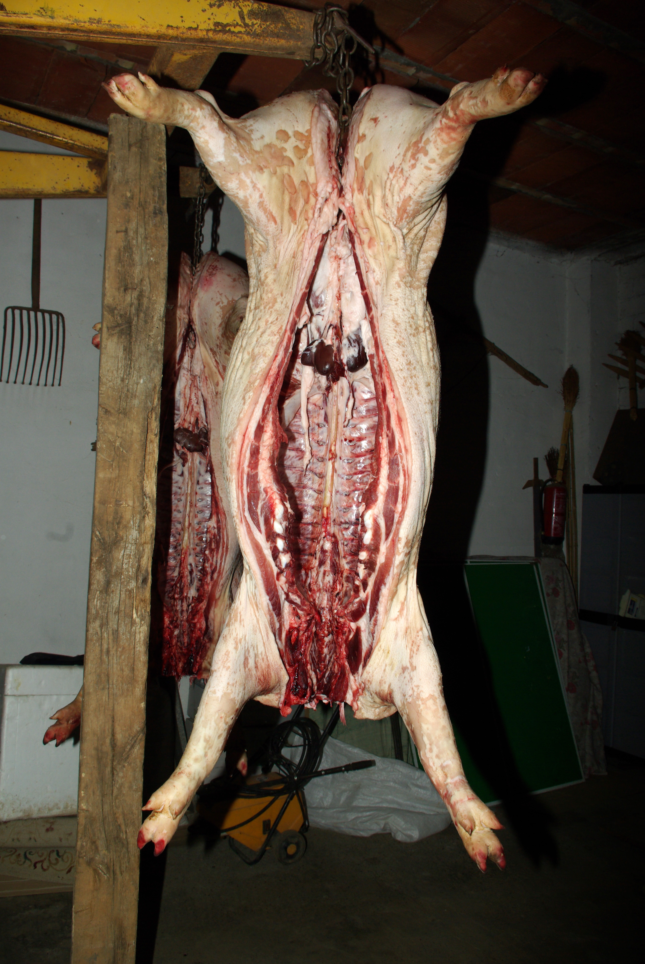 Tradicional pig matance in Santa María del Páramo (León Spain).